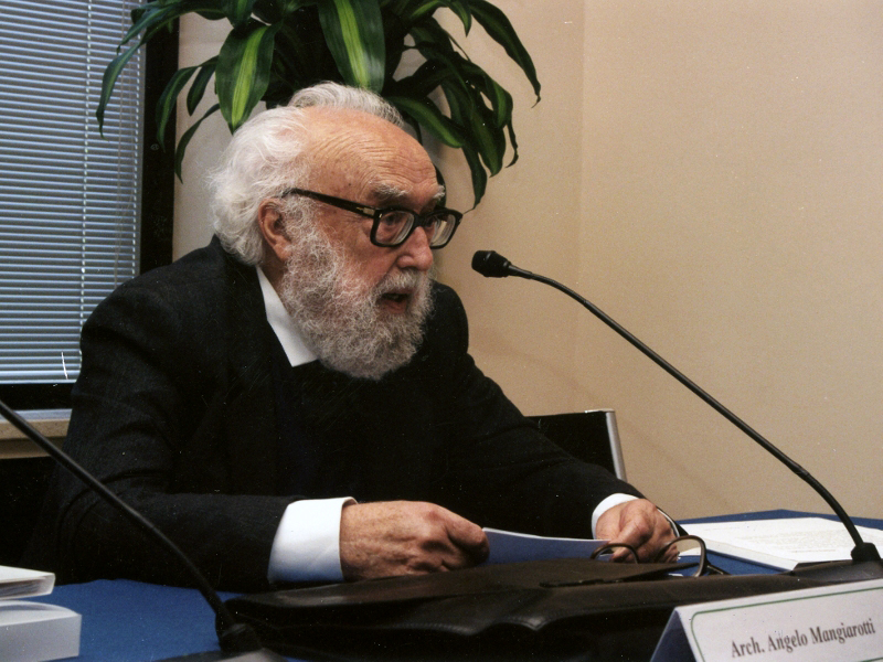 Angelo Mangarotti during a conference